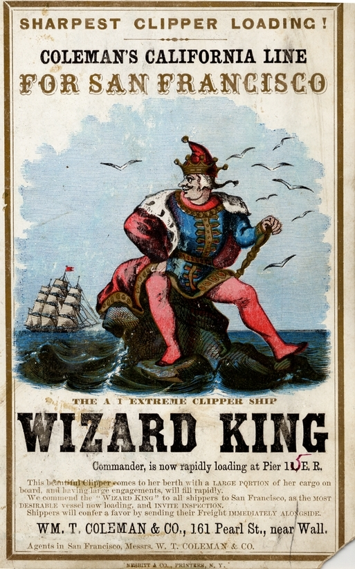 Sailing card for the clipper ship Wizard King.